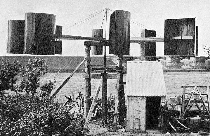 Blyth's wind turbine built to power the lighting at his summer home in Marykirk, Scotland. This is not his first wind turbine, however.